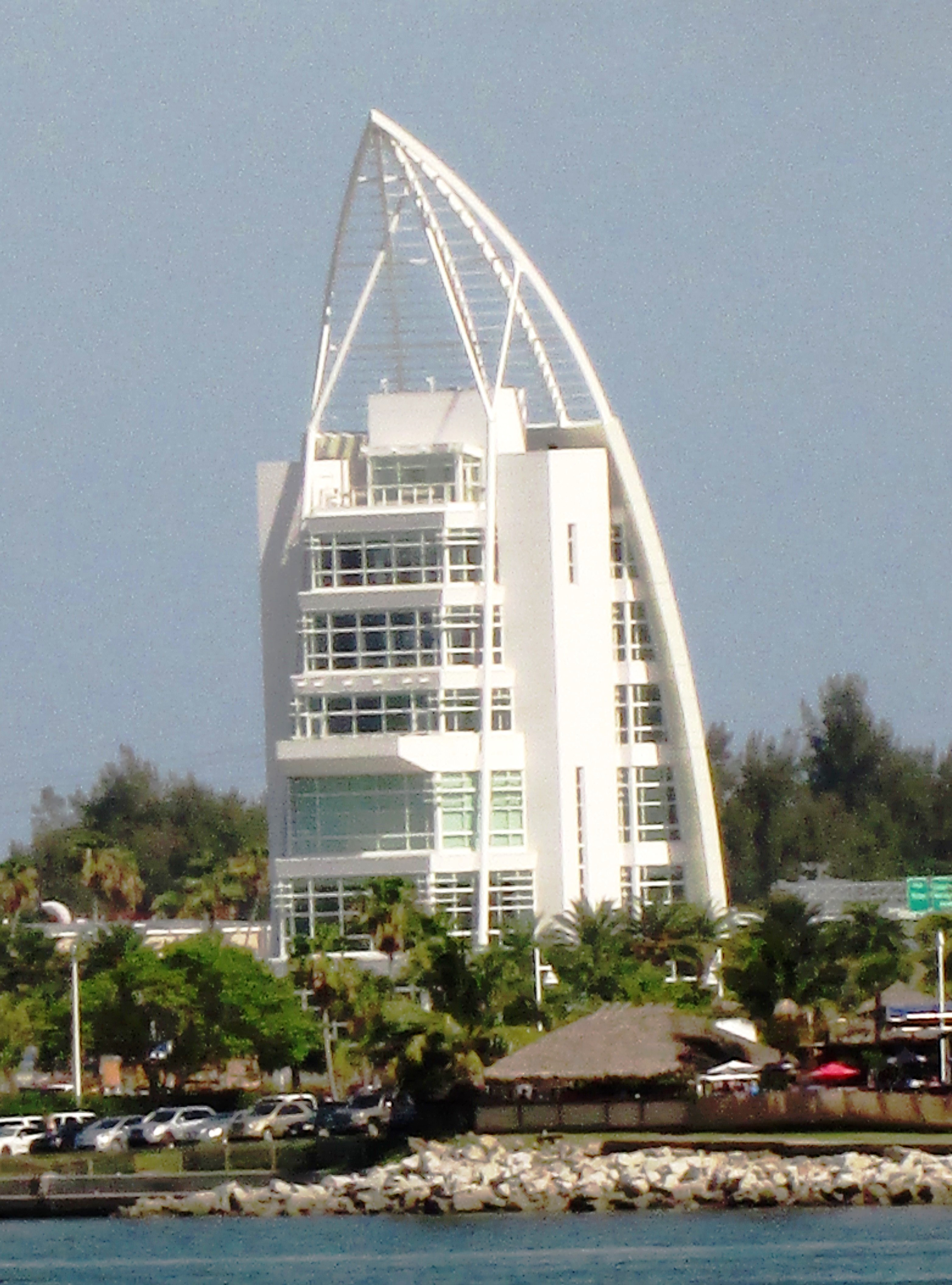 The Exploration Tower at 670 Dave Nesbit Drive in Port Canaveral, Florida is a seven-florr building which contains almost 5,500 square feet of exhibit space, interactive displays, two observations decks, an auditorium, gift shop and a cafe. (Source: Exploration Tower website)